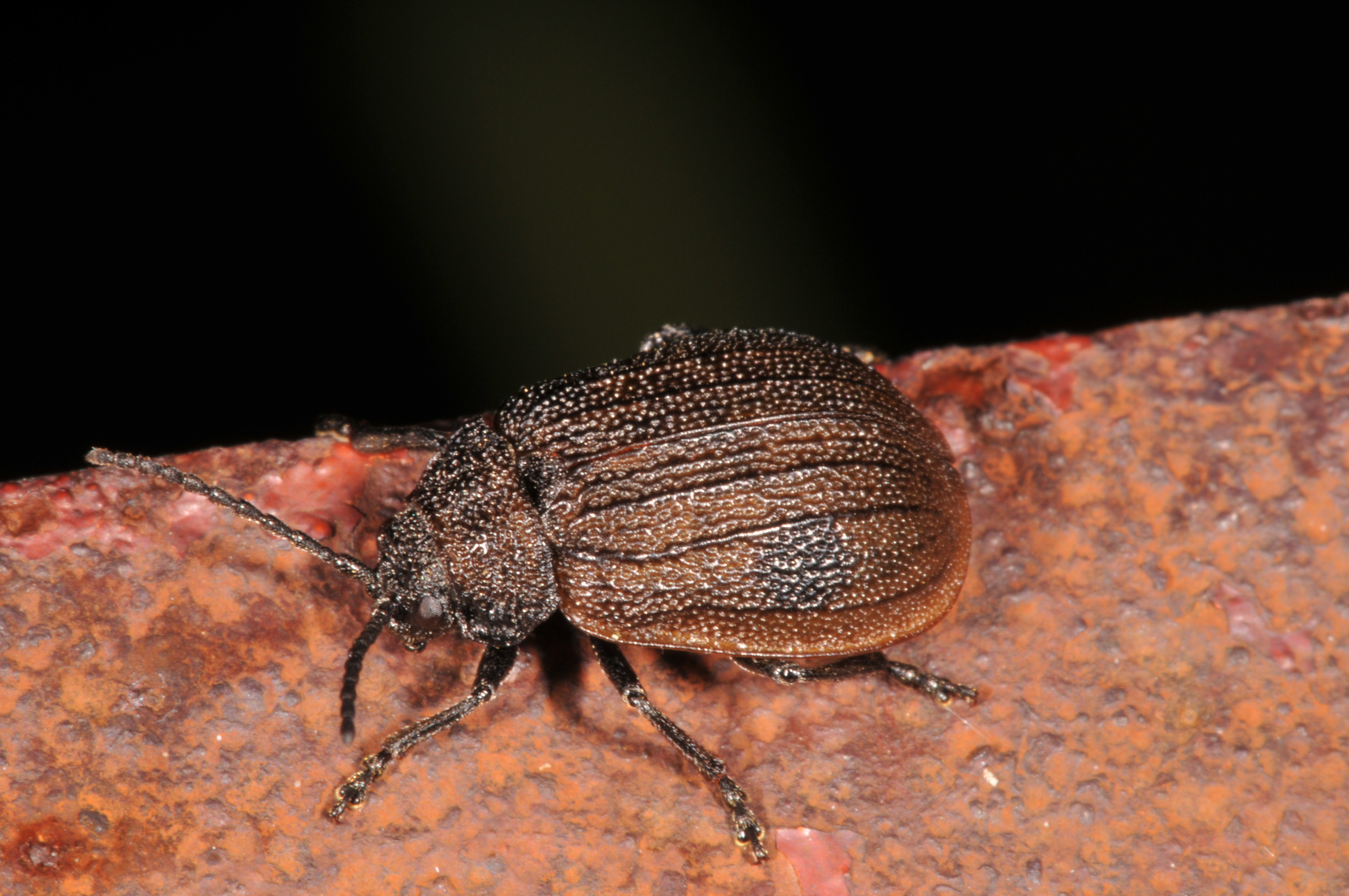 Galeruca cf. interrupta, Croatia, Istria, Učka mountains, 1,000 amsl